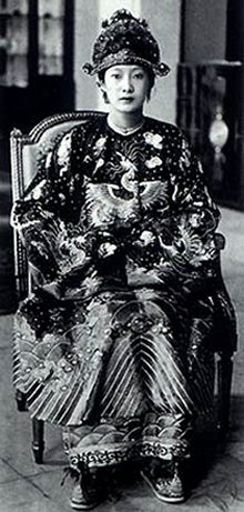 Empress Nam Phương on her wedding day, 1934. Royal portrait by unknown Nguyen Dynasty photographer, taken as a wedding photo of Nam Phuong and was widely used right after in French Cochichina.